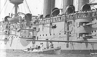 Photograph showing starboard QF 6 inch guns of British cruiser HMS Powerful, Australian Squadron, Sydney Harbour This is a clip from File:HMSPowerfulCirca1905.jpg